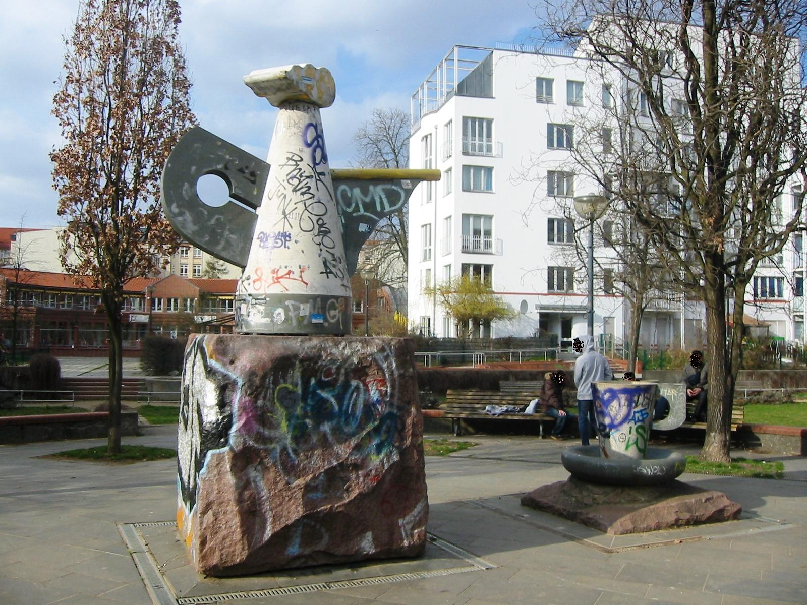 Work of art "not their birthday" in the Theodor-Wolff-Park in Berlin-Kreuzberg (Germany)